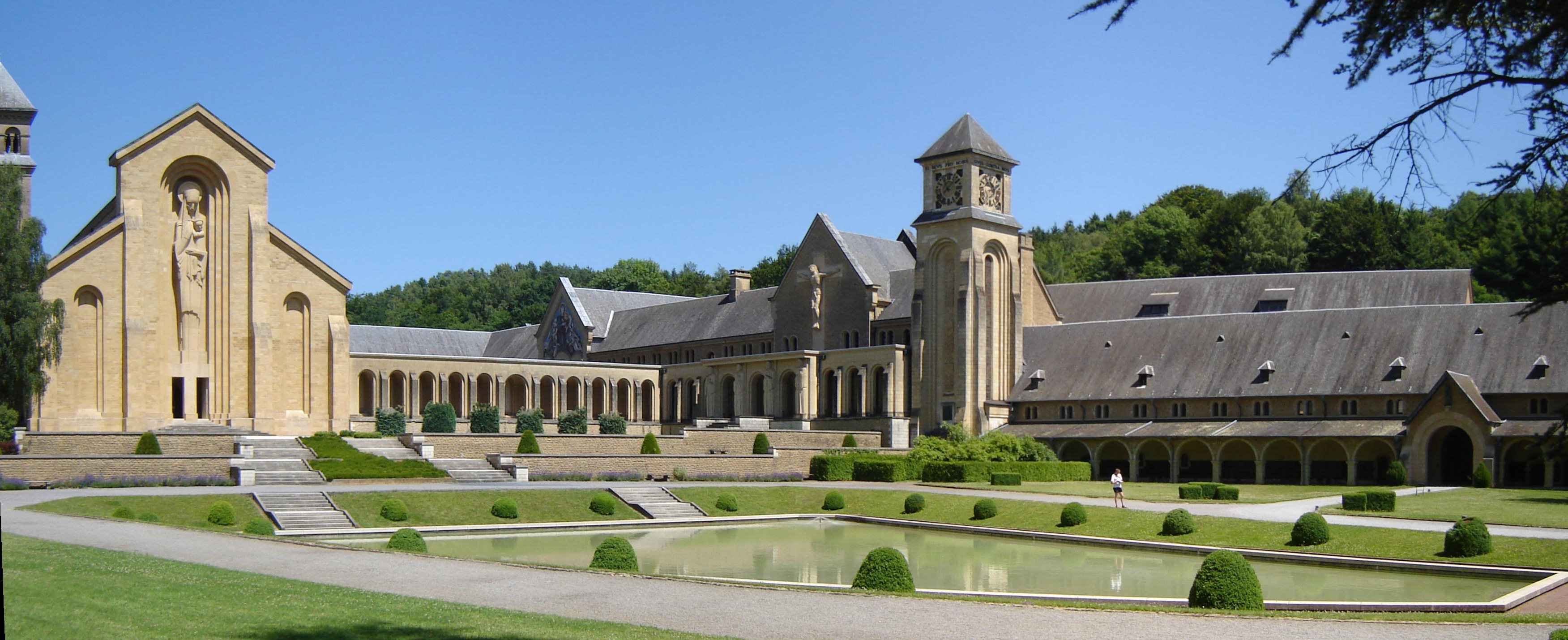 Central court of honour of the Abbaye d'Orval (Orval Abbey). Villers-devant-Orval, Florenville, Luxembourg, Belgium.